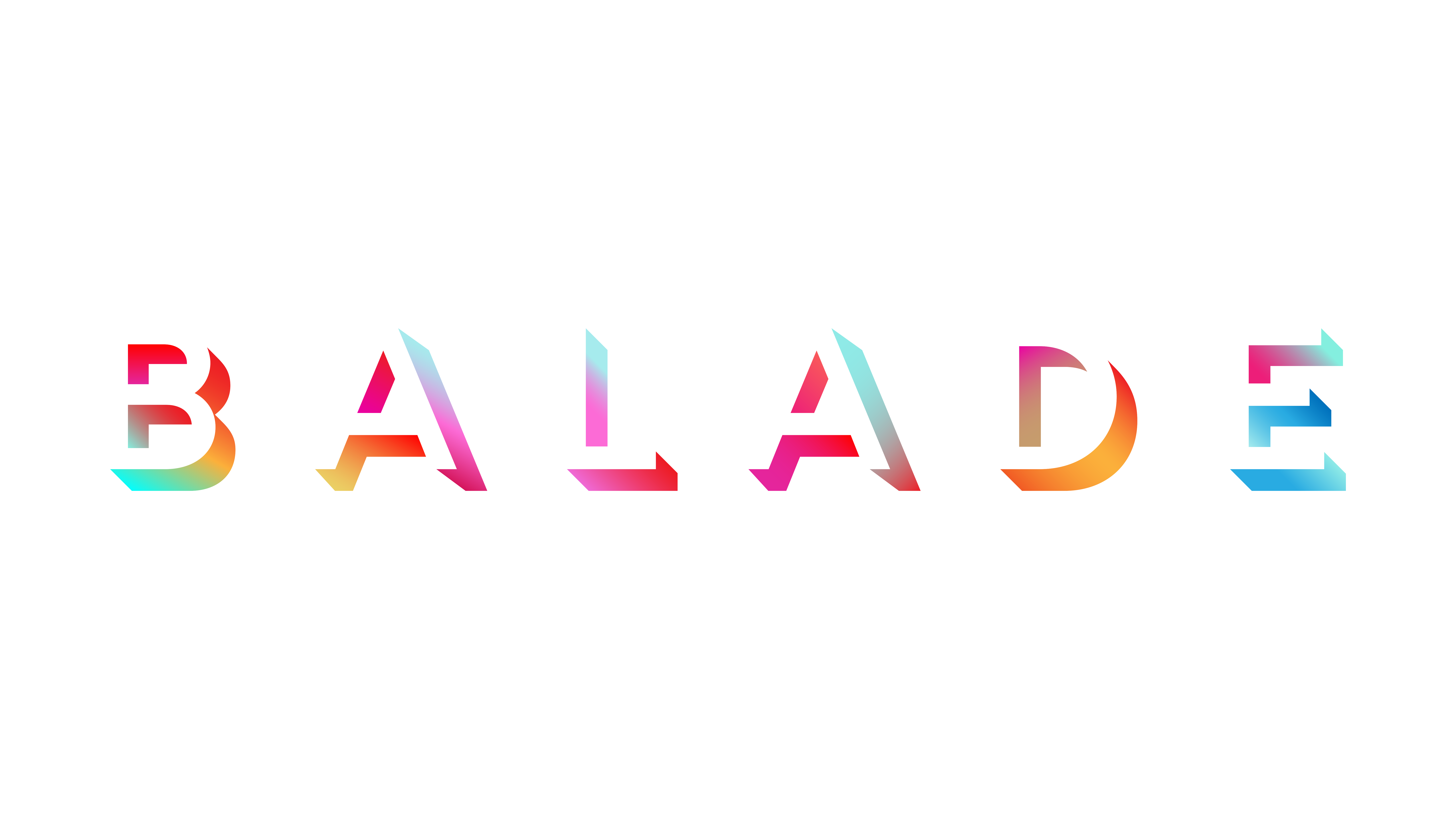 Logo for the TV show Balade